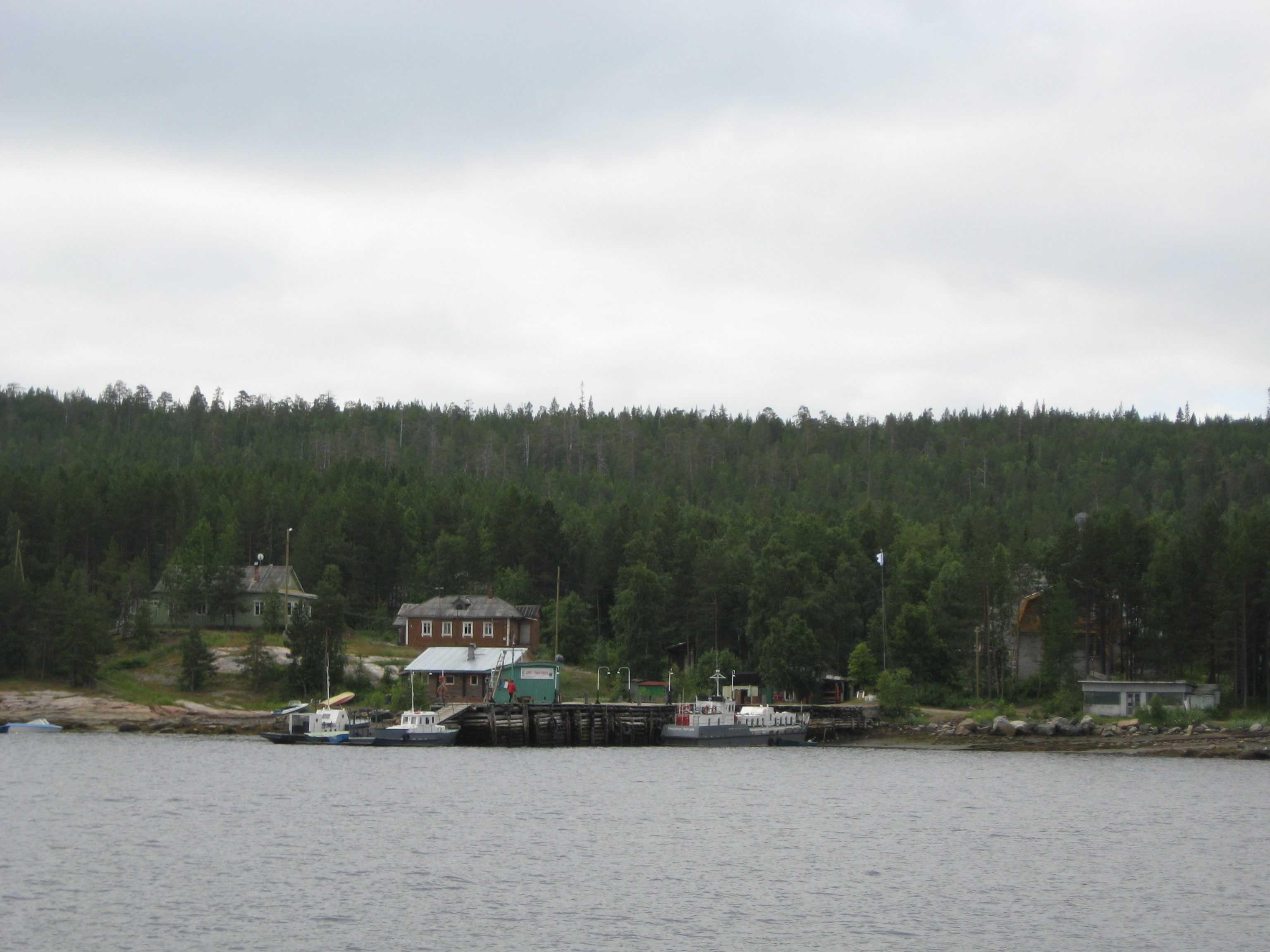 White Sea Biological Station of Lomonosov Moscow State University as seen from the sea